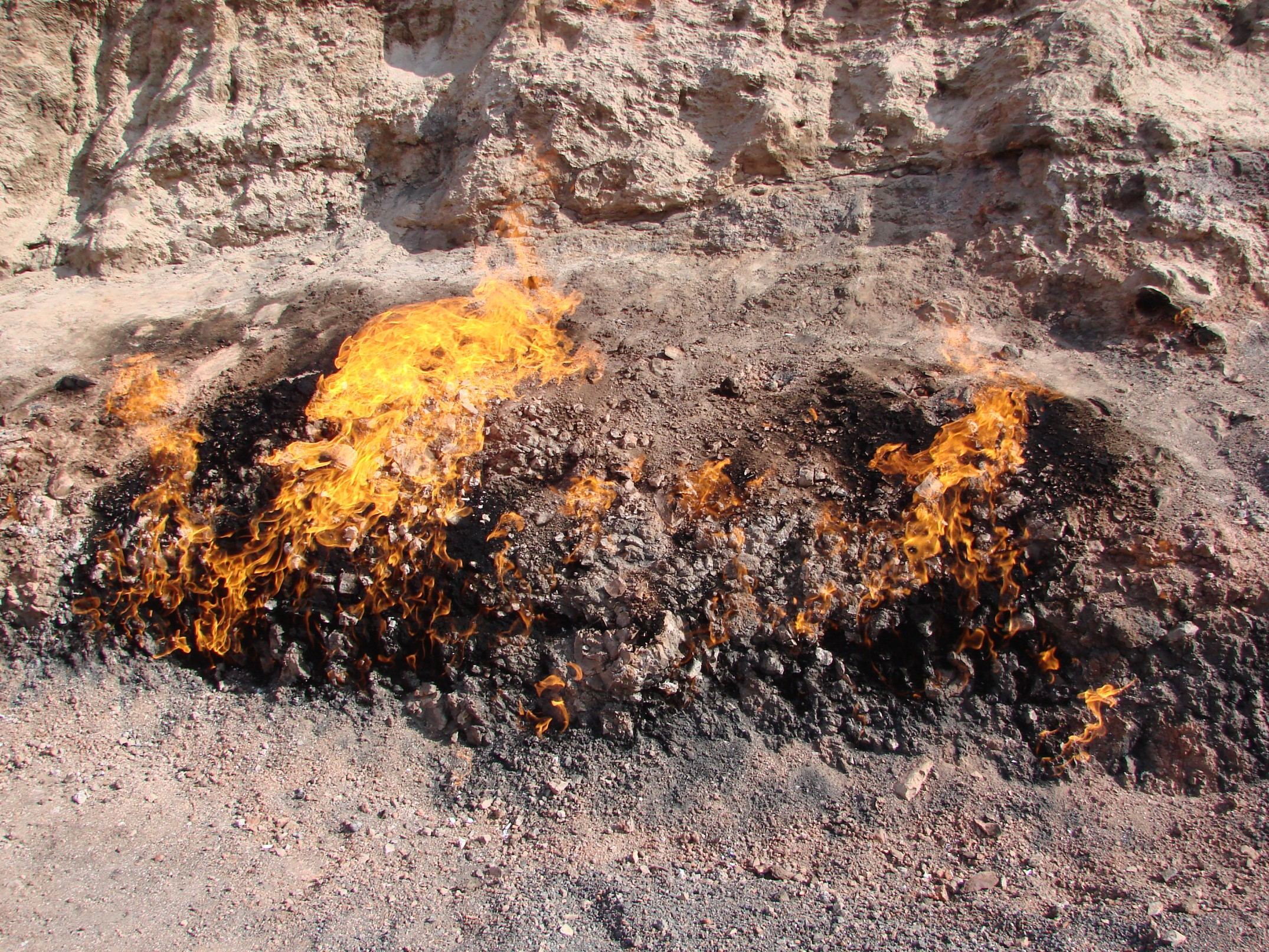 Yanar dag in Apsheron peninsula, Azerbaijan.